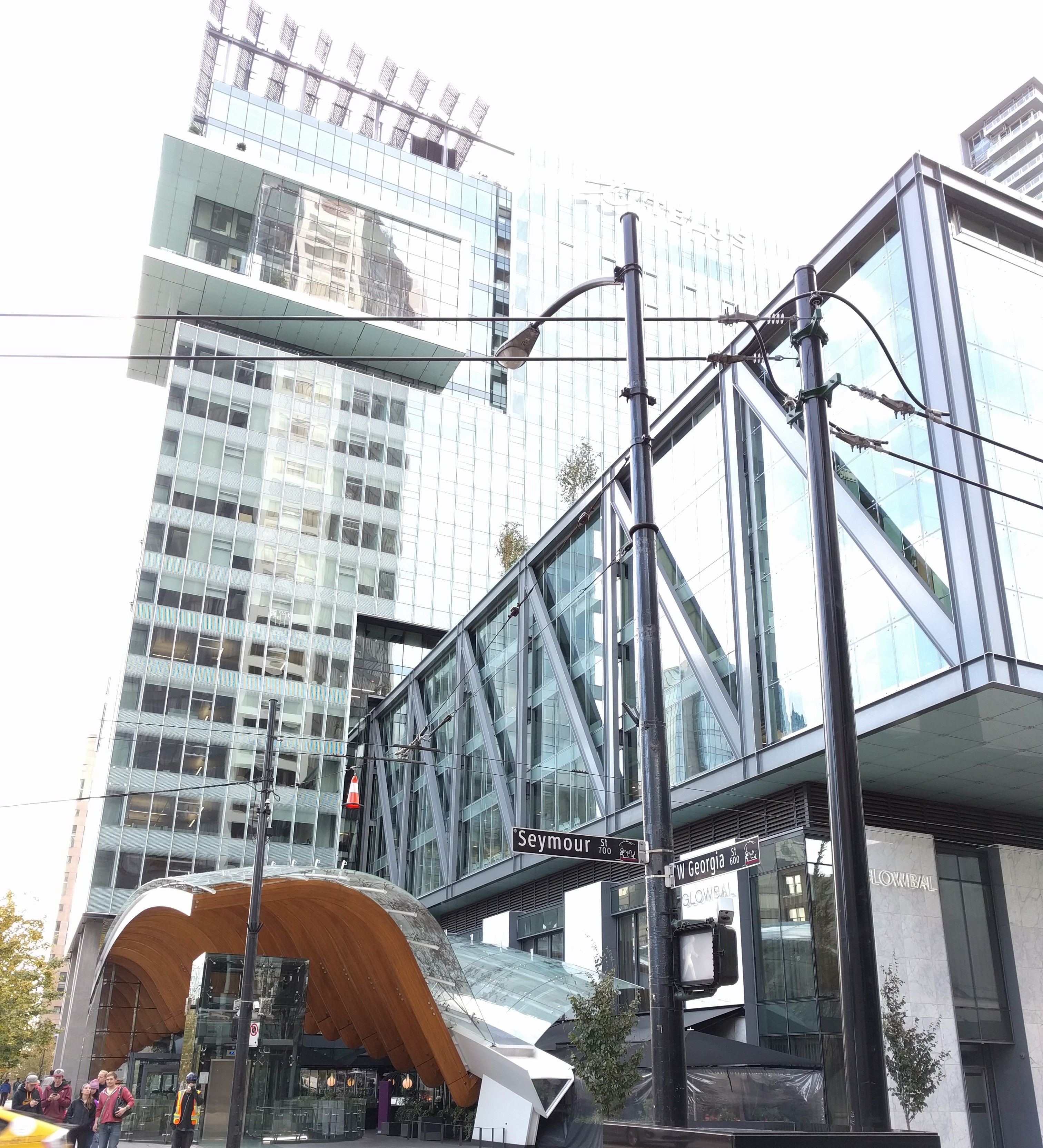 Exterior of Telus headquarters, Telus Garden, in downtown Vancouver.